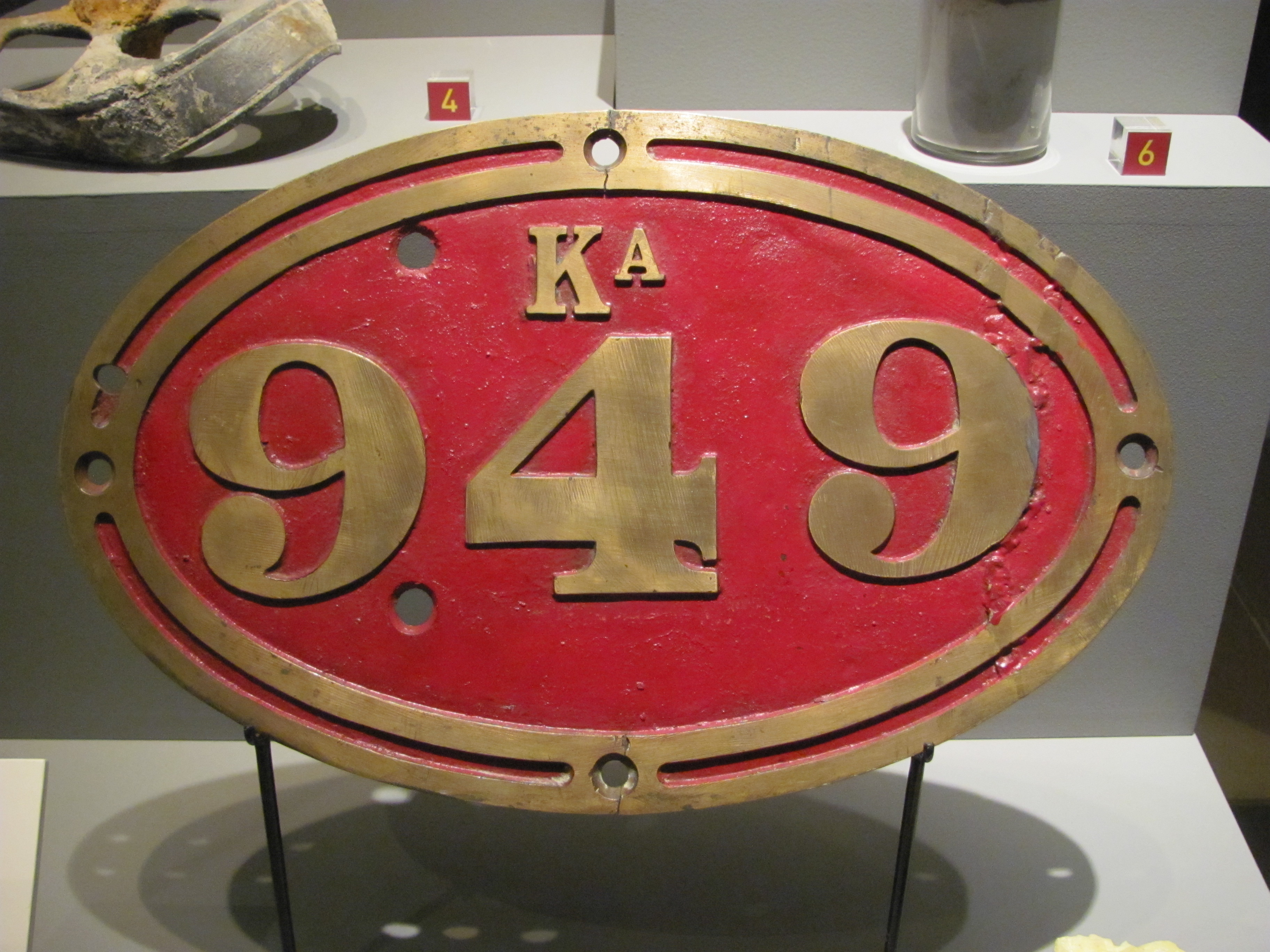 Number plate of Loco which pulled the train of the Tangiwai, NZ, desaster in 1953 - Auckland Museum